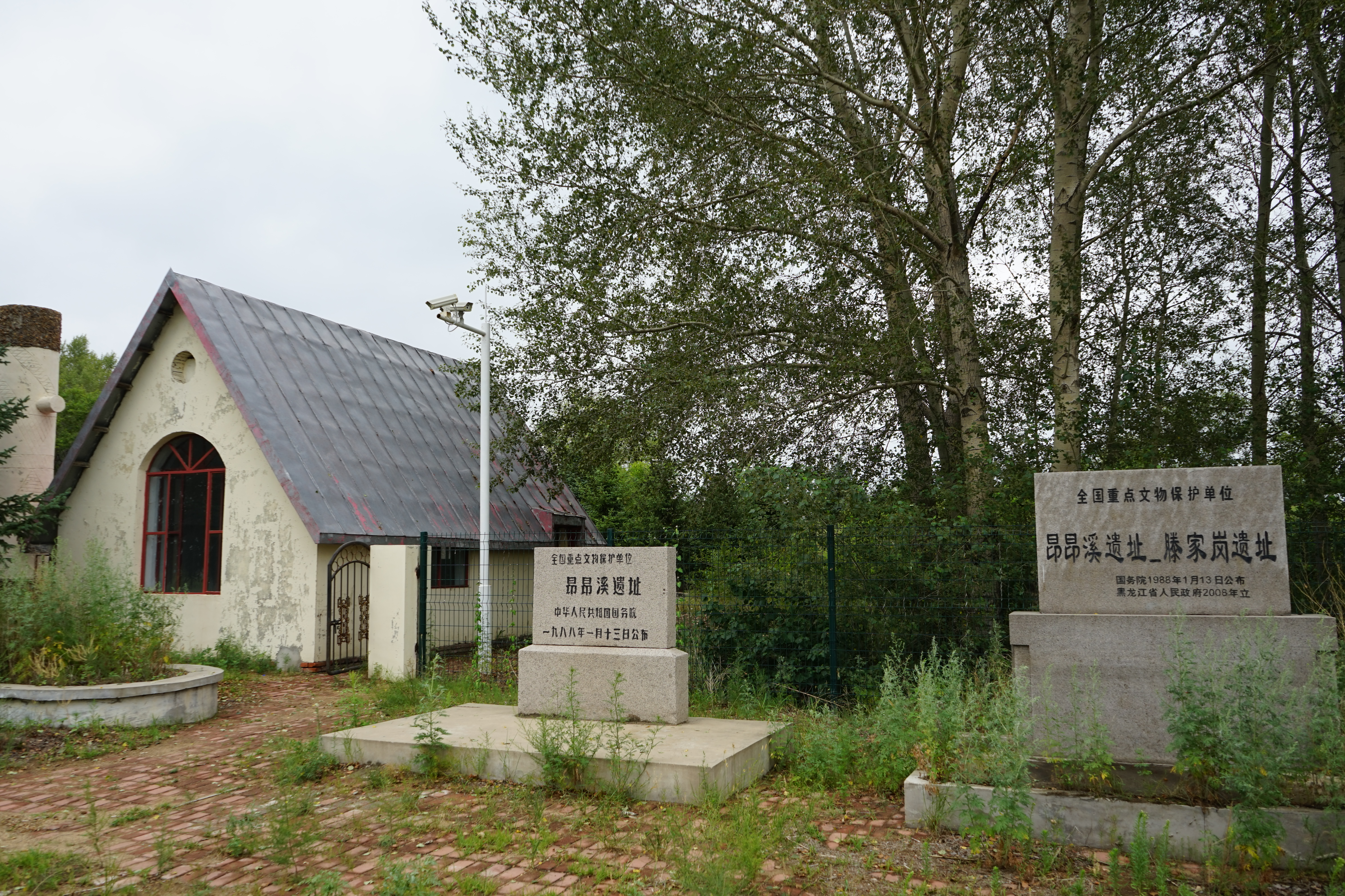 Cultural relics protection steles at Tengjiagang Site